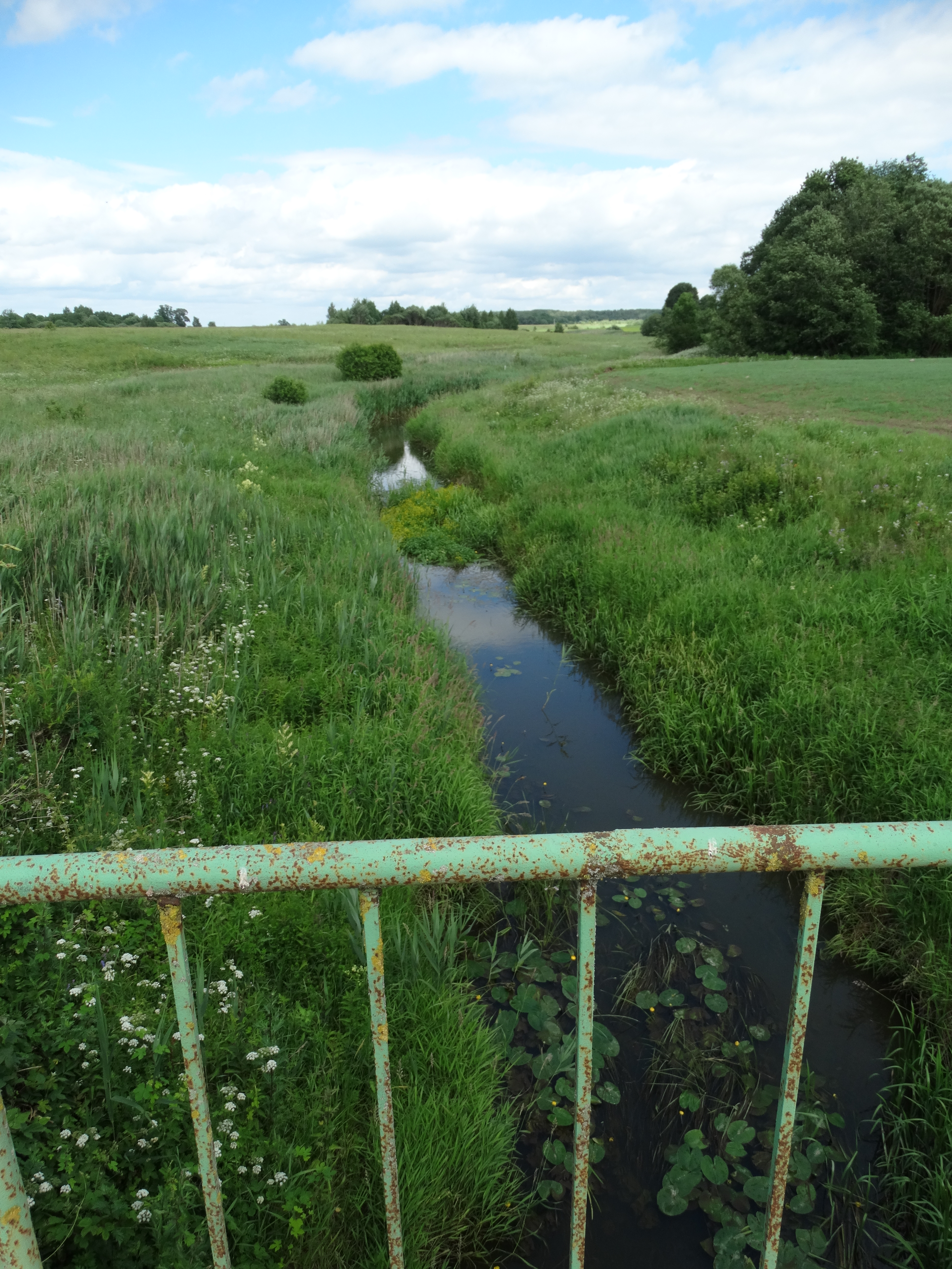 Musė river, Širvintos District, Lithuania